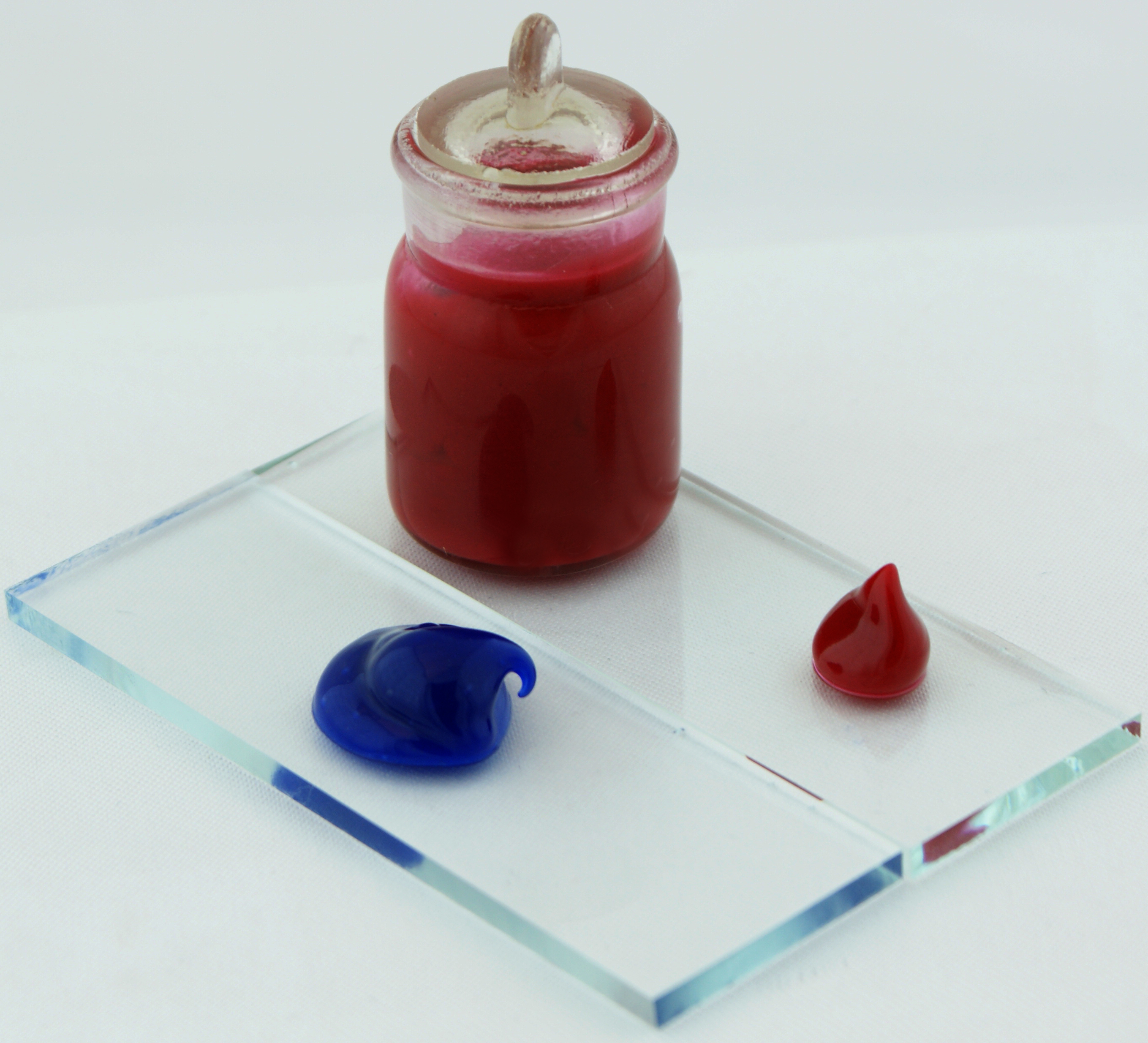 Gel Revitalizant